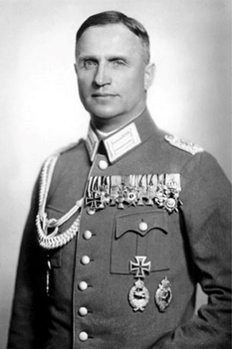 Half–Jew General Helmut Wilberg